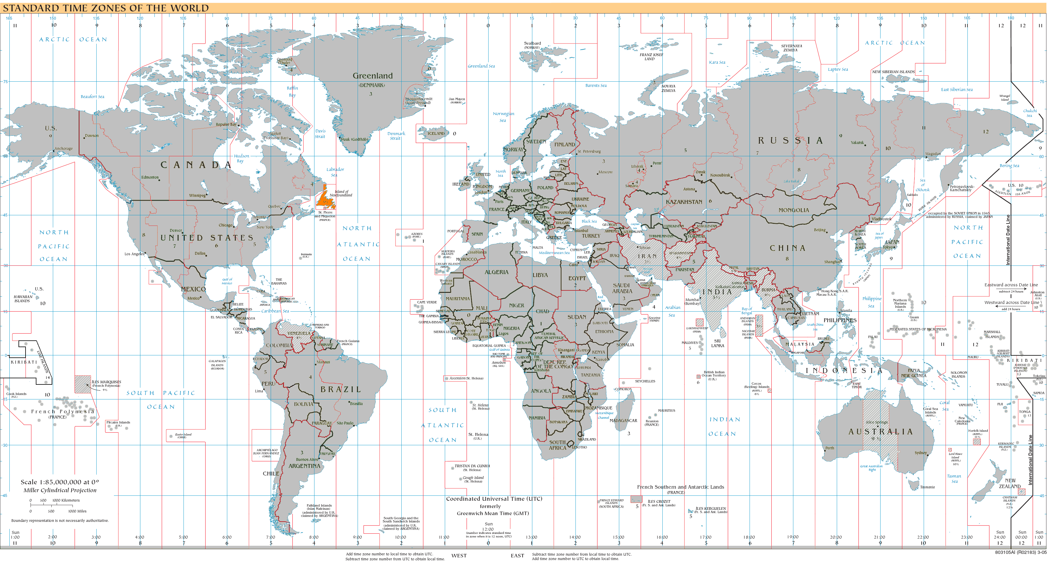 World map of time zones as of June 2008 Highligting UTC-2:30. Orange - UTC-2:30 during Northern Hemisphere Summer